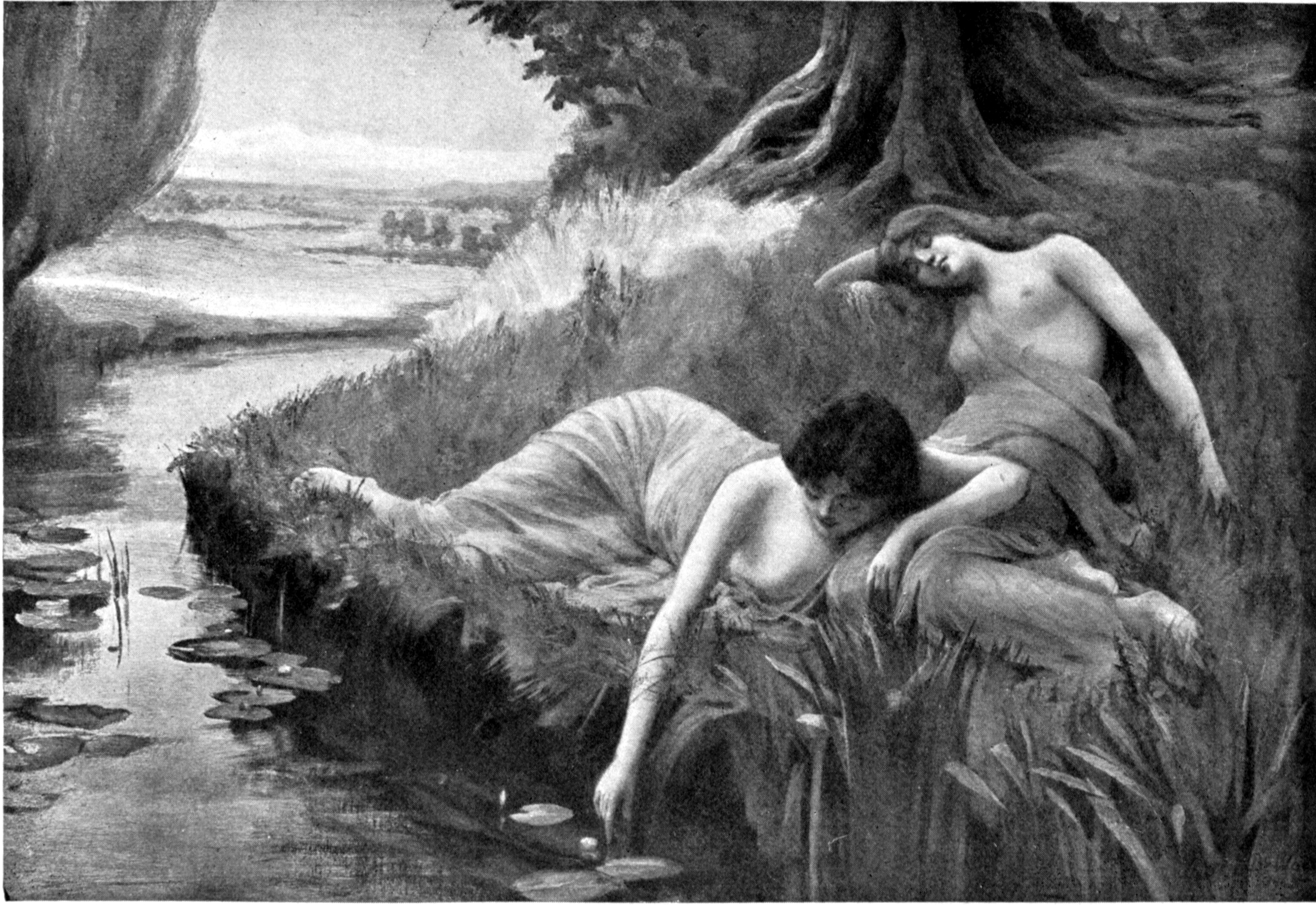 Huldra's Nymphs (the title given to the work in the list of illustrations on page vii). A black-and-white reproduction of a painting, showing an idyllic scene with two female beings near a small stream.